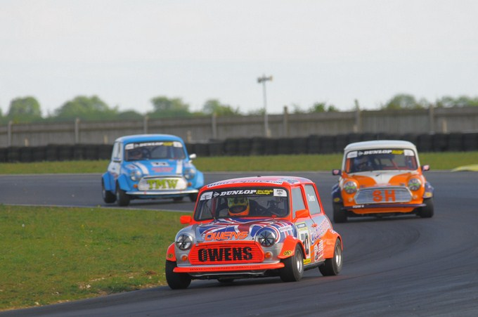 2011 Dunlop Mini Miglia Championship: Car no.20 Endaf Owens Car no.7 Sarah Munns Car no.11 Kane Astin